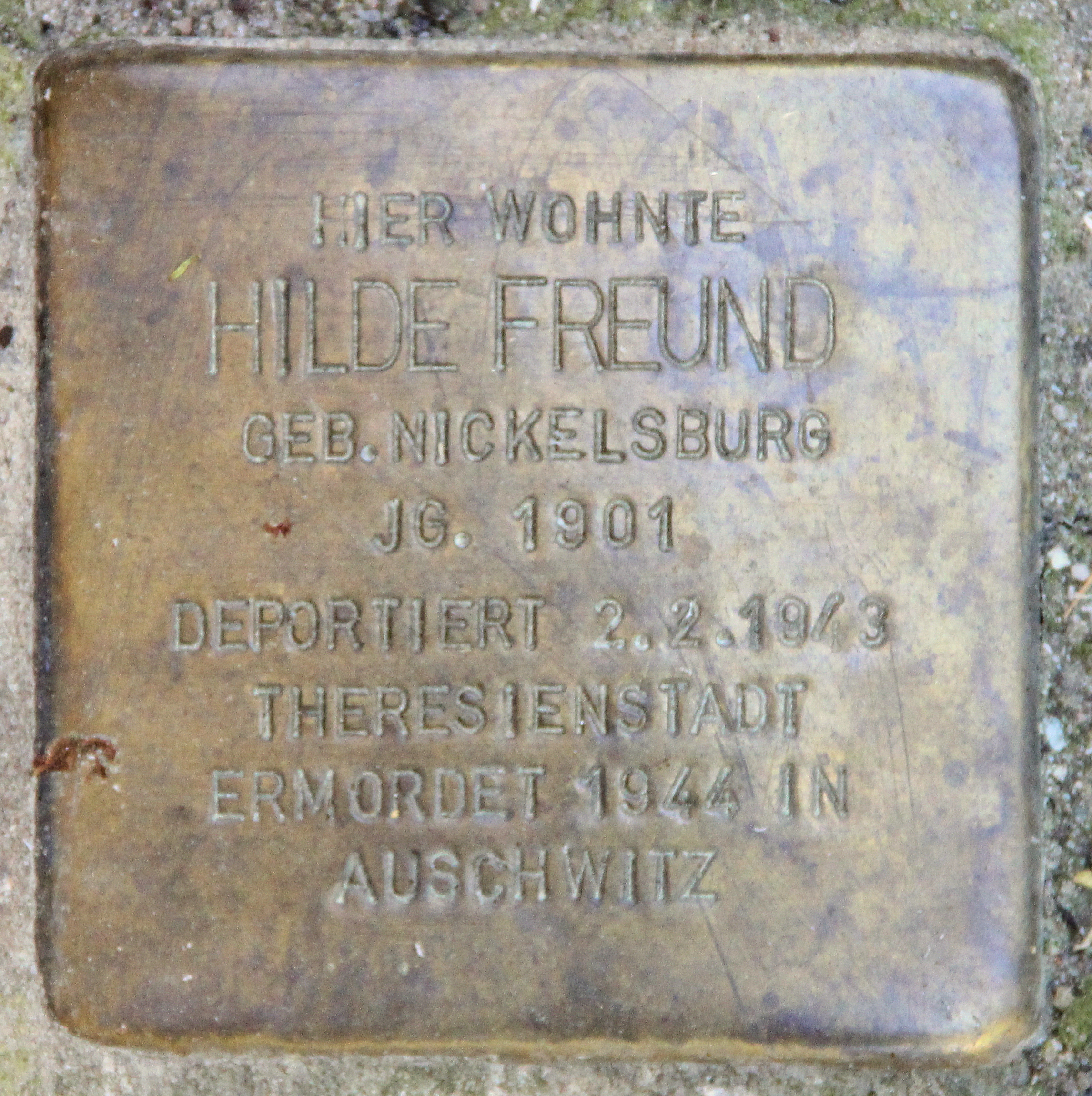 "stumbling block", Hilde Freund, Mommsenstraße 52, Berlin-Charlottenburg, Germany Koordinate:52°30′12″N 13°18′41″E / 52.50333°N 13.31139°E